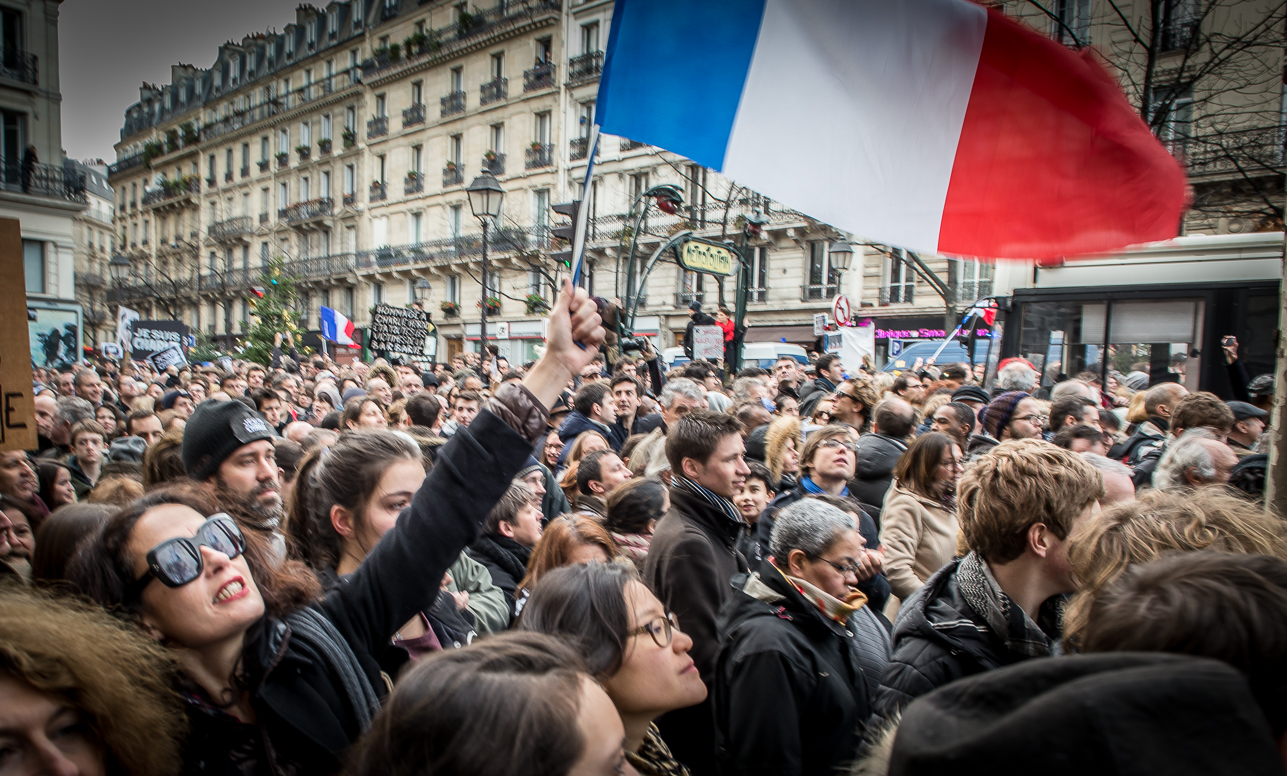 Paris rally in support of the victims of the 2015 Charlie Hebdo shooting, 11 January 2015.